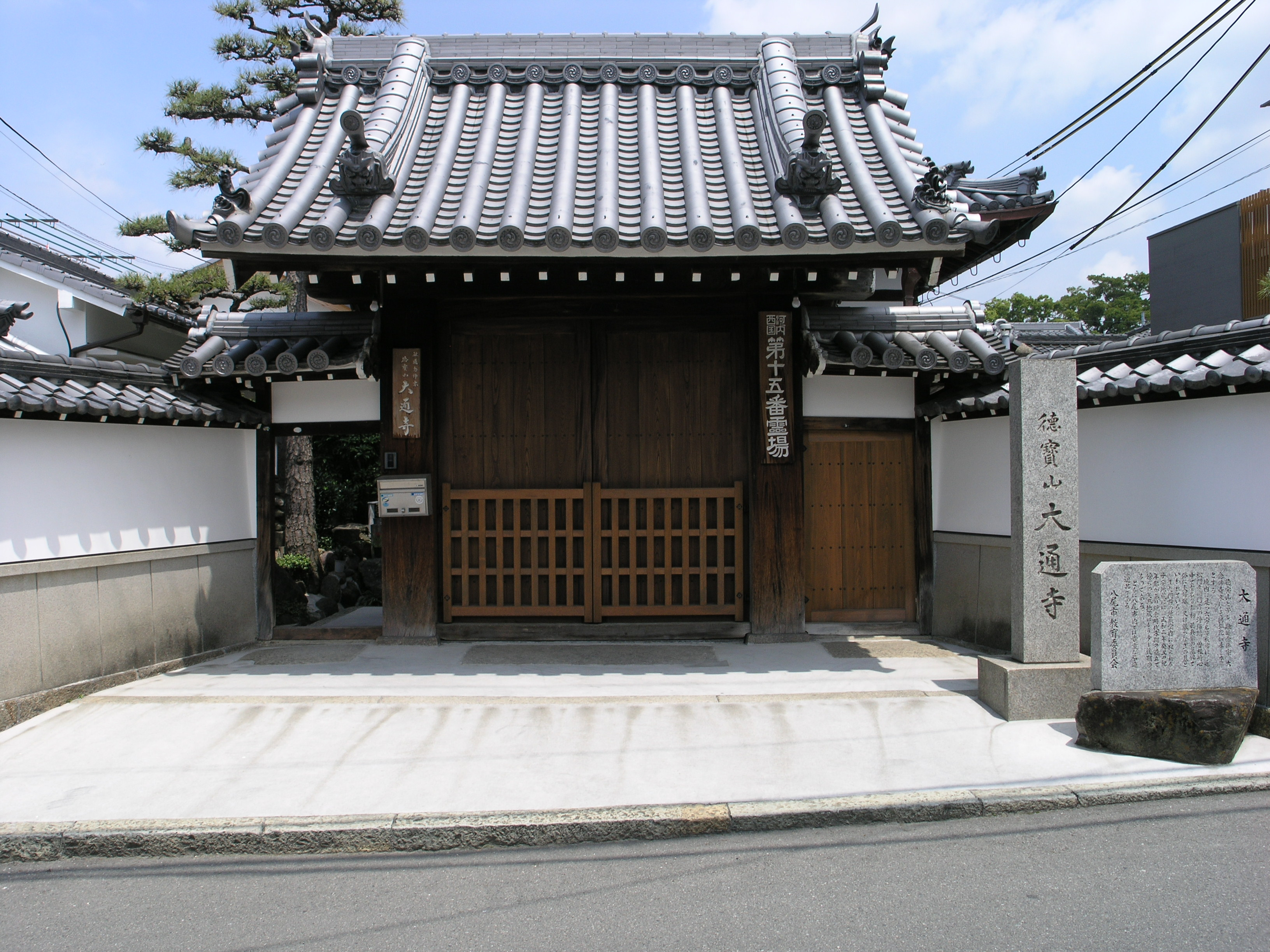 Daitsuji, Yao, Osaka, Japan